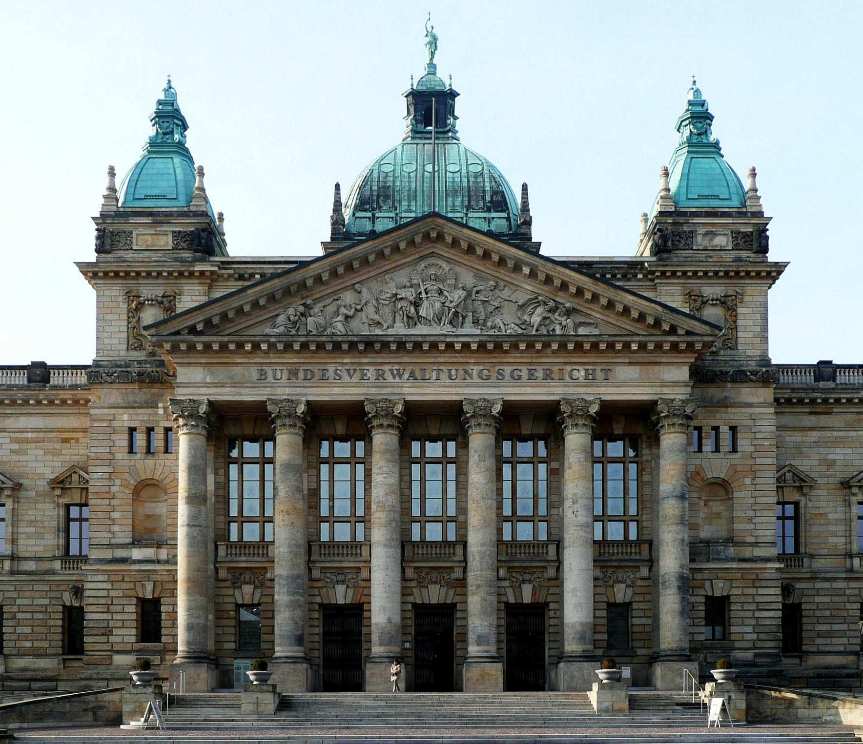 The main entrance of the Federal Administrative Court of Germany (former Reichsgericht) in Leipzig.